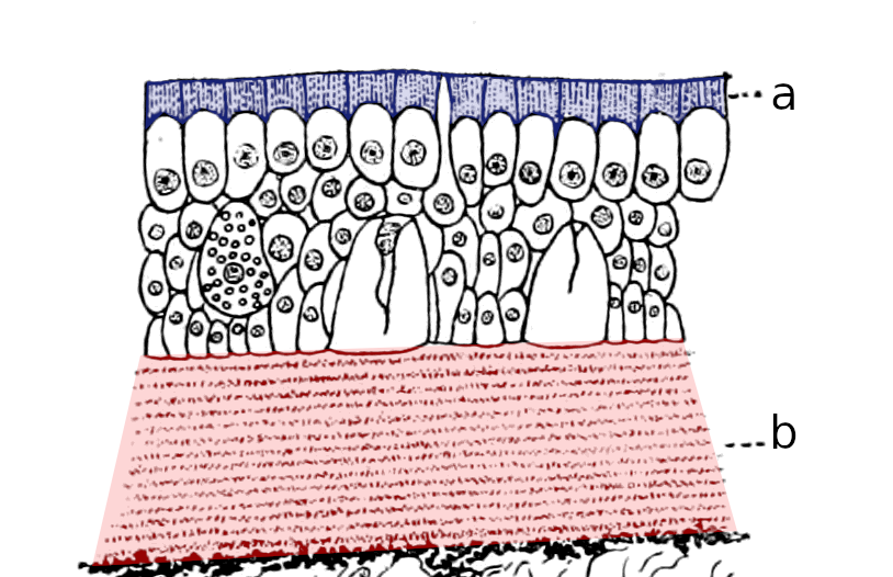 Section of Skin and Underlying Tissues in the Head-Region of Ammocoetes. Modified from Holbrook (1908)